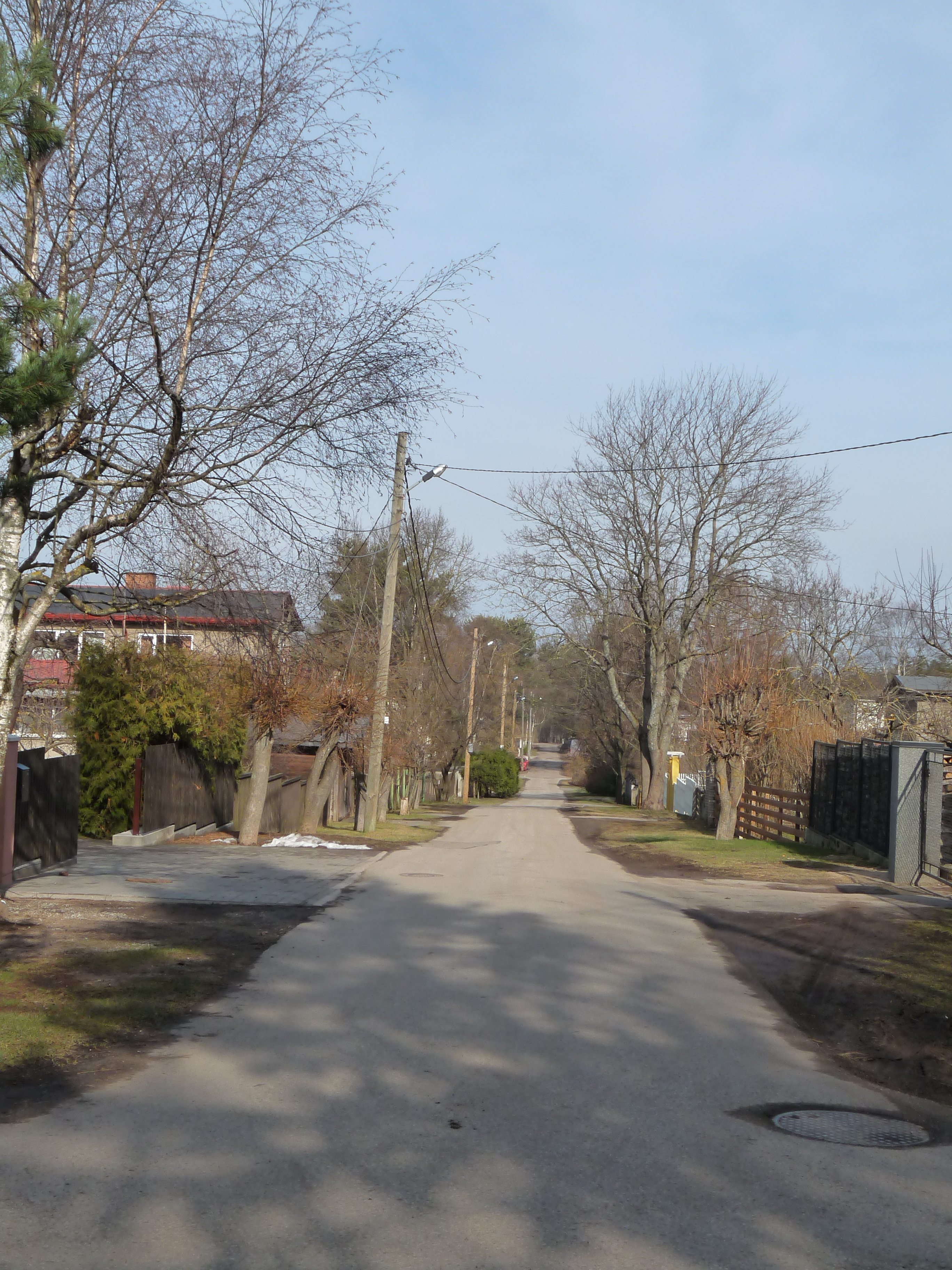 Veeriku street in Tallinn, Estonia